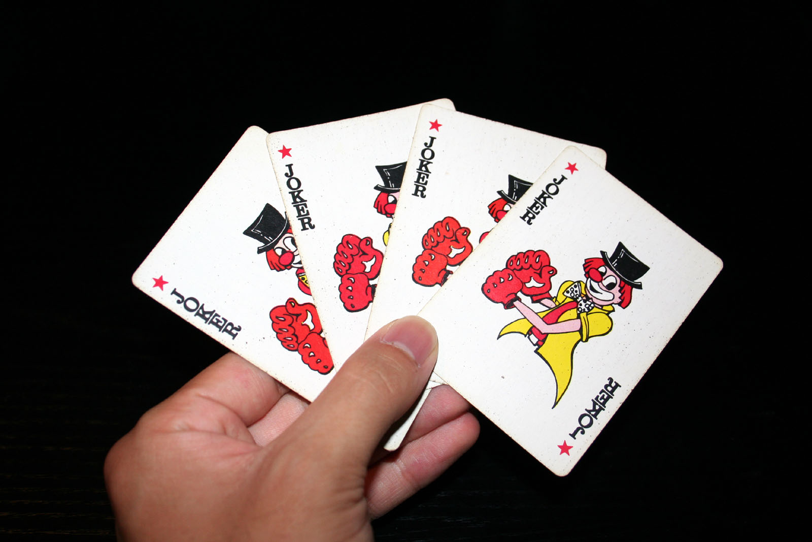 A hand holding the four Jokers in a standard deck of cards. Taken by Enoch Lau on 22 January 2007. As a courtesy, please let me know if you alter this image or this image description page. Original filename was IMG_1192.JPG.